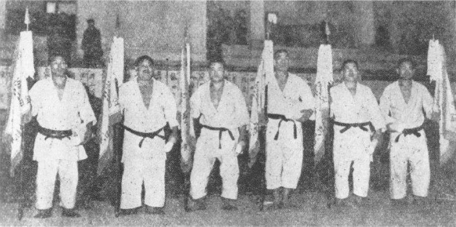 Winners of All-Japan Judo Championships in 1936.